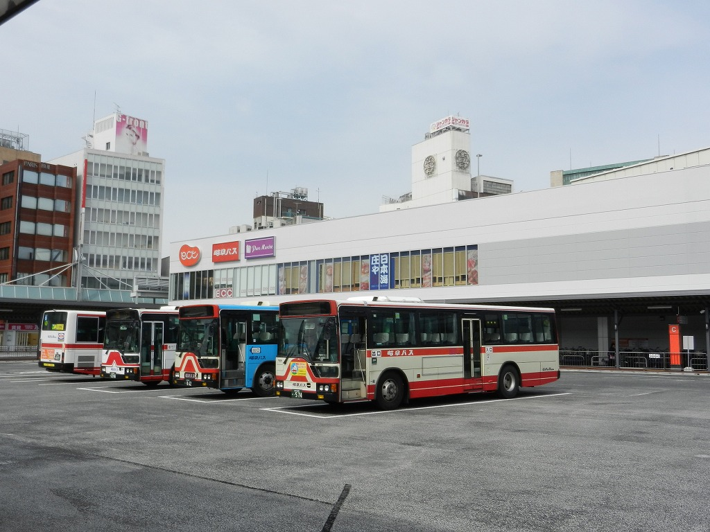 Gifu bus Terminal (Meitetsu-Gifu station)